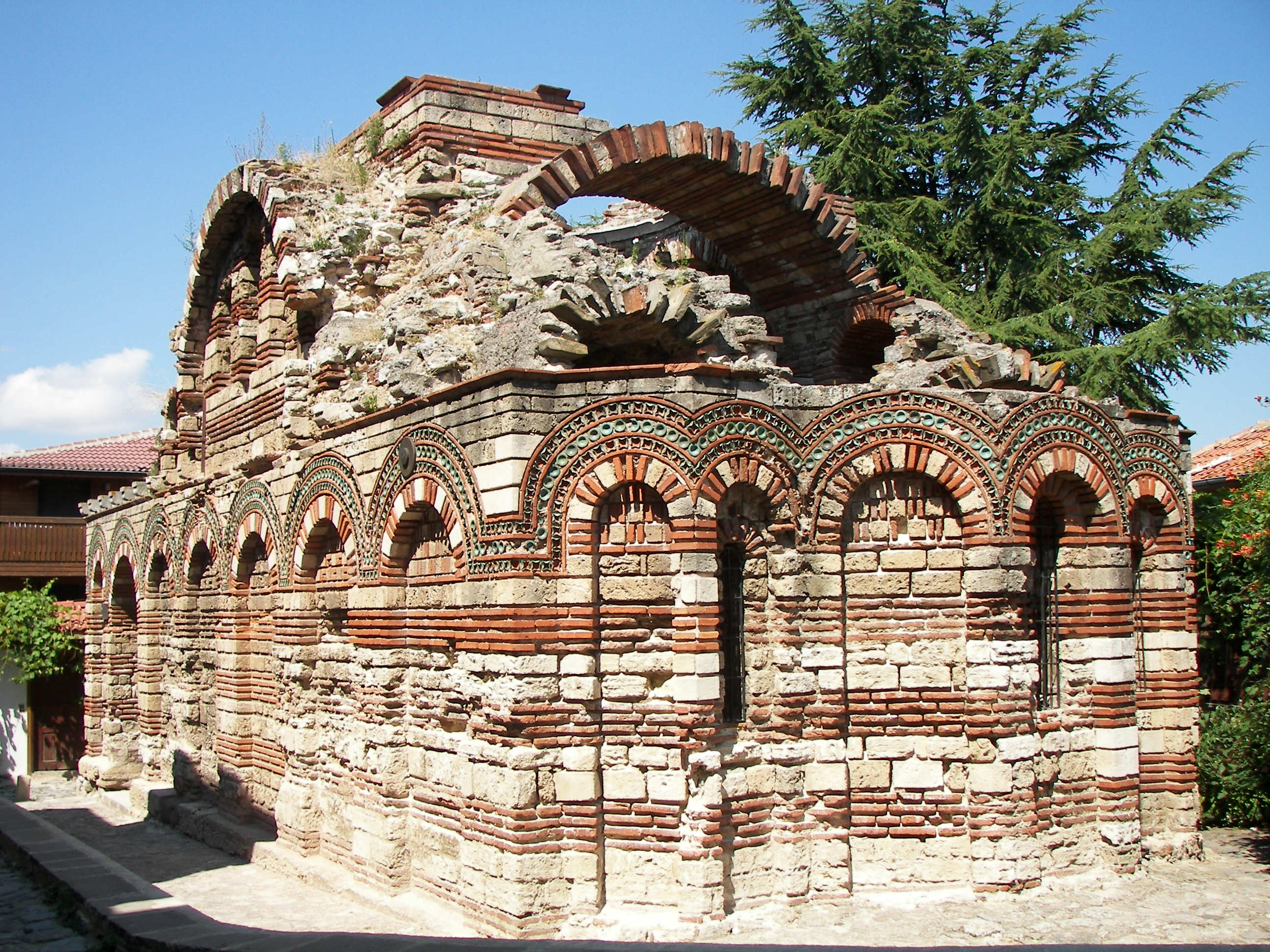 Nesebar